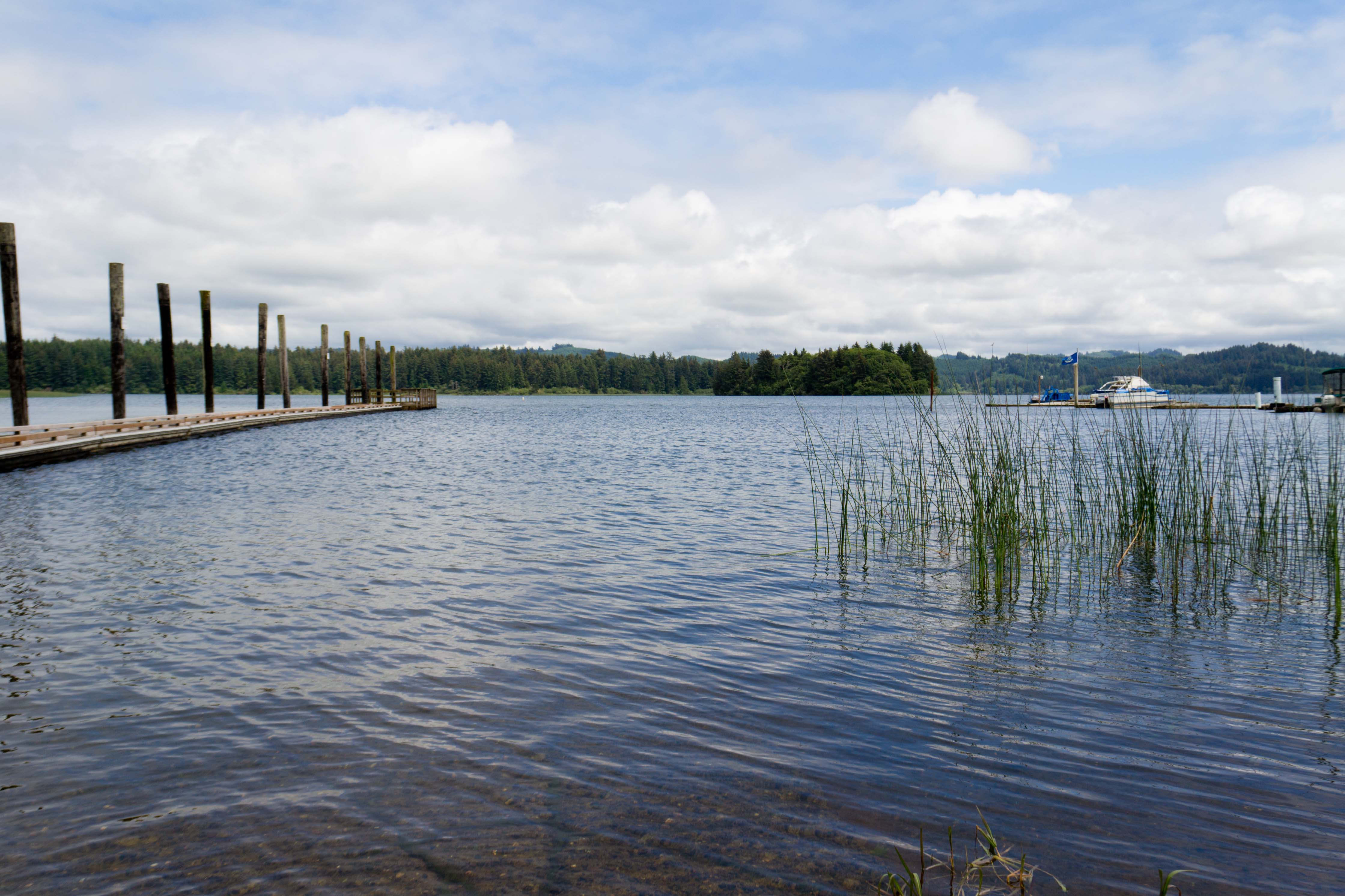 Taken from Westlake Park